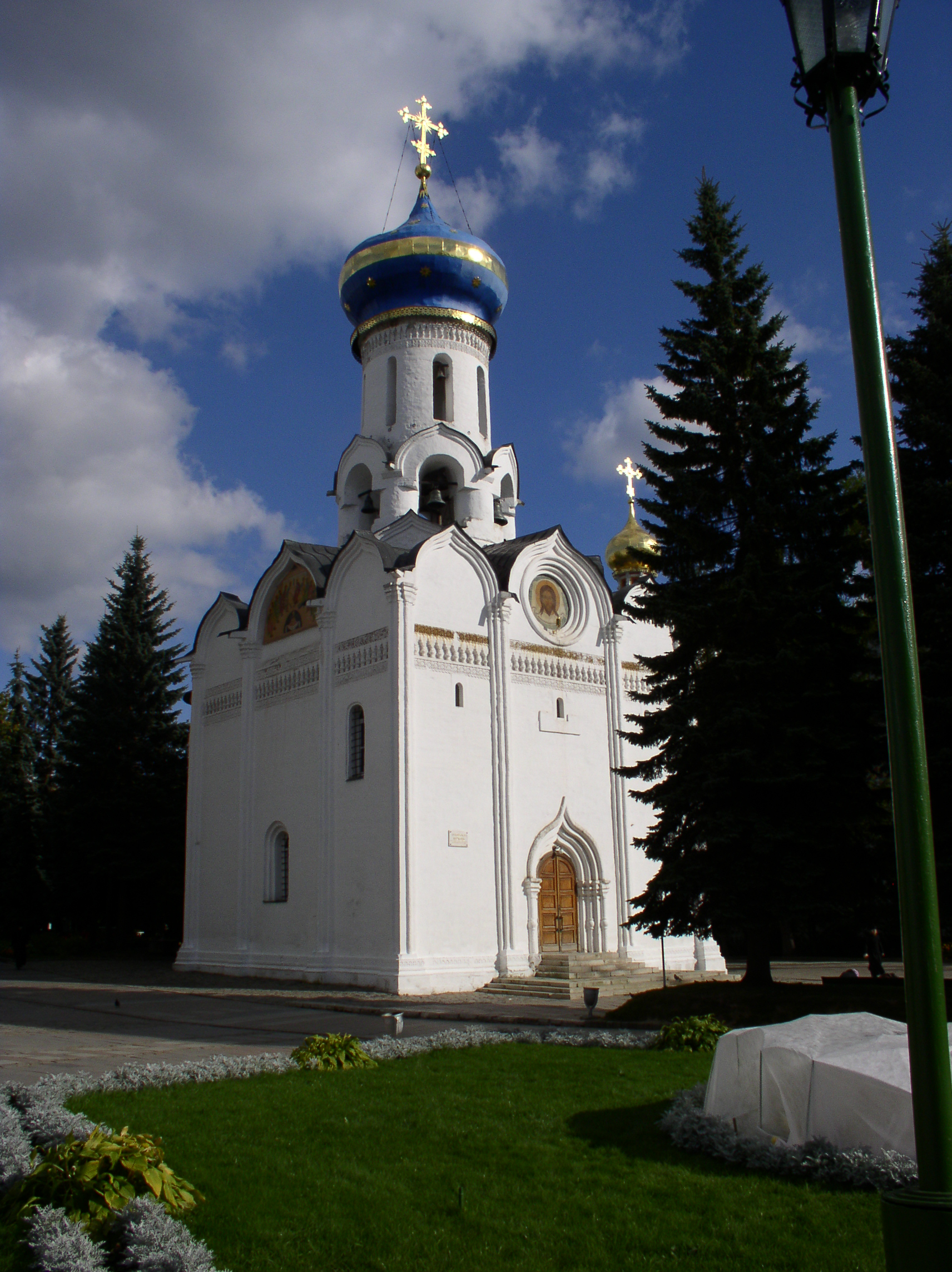 Church of Holy Spirit. Troitse-Sergiyeva Lavra. Sergiev Posad, Russia.